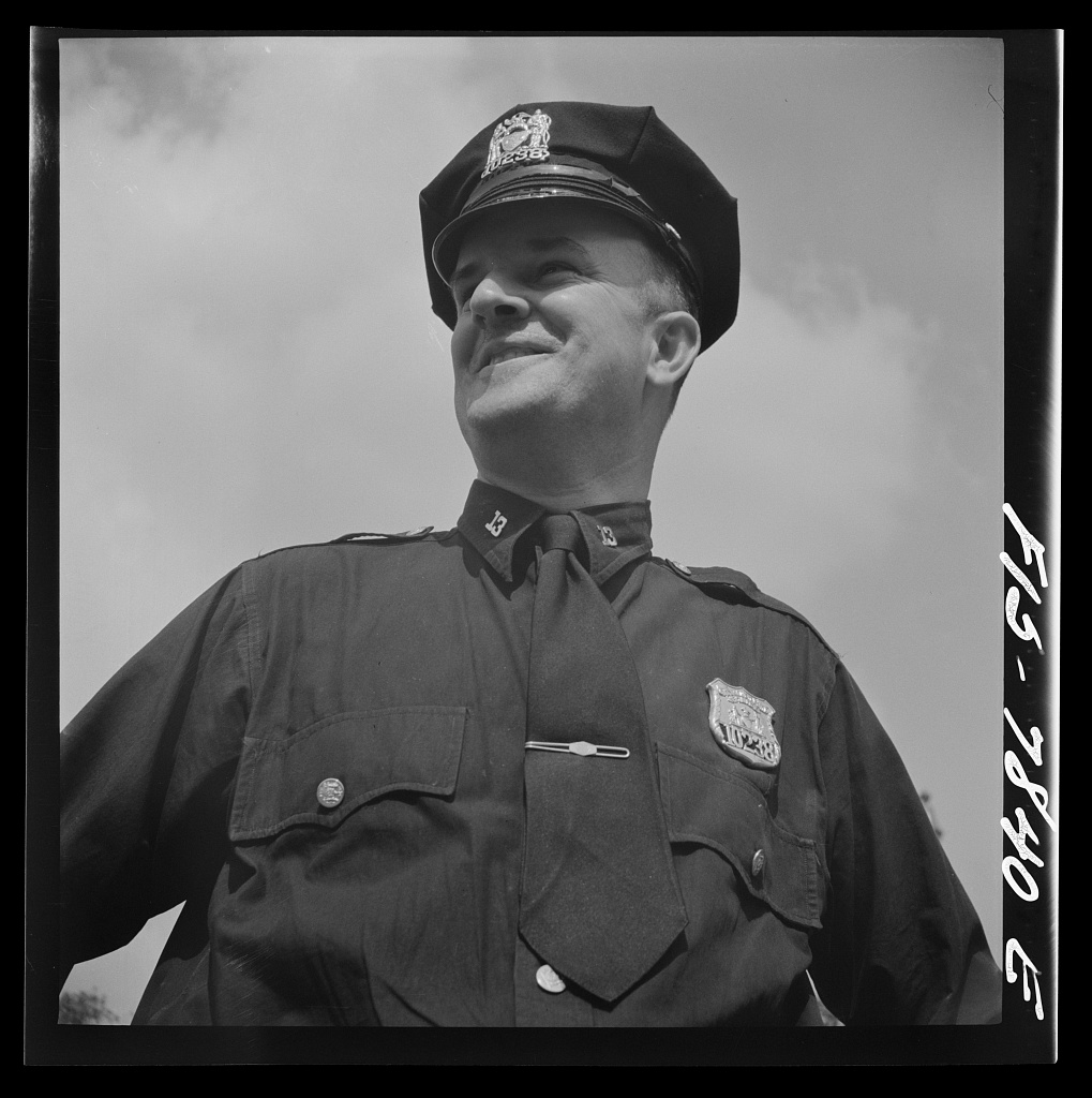 New York, New York. Irish-American policeman in Central Park on Sunday